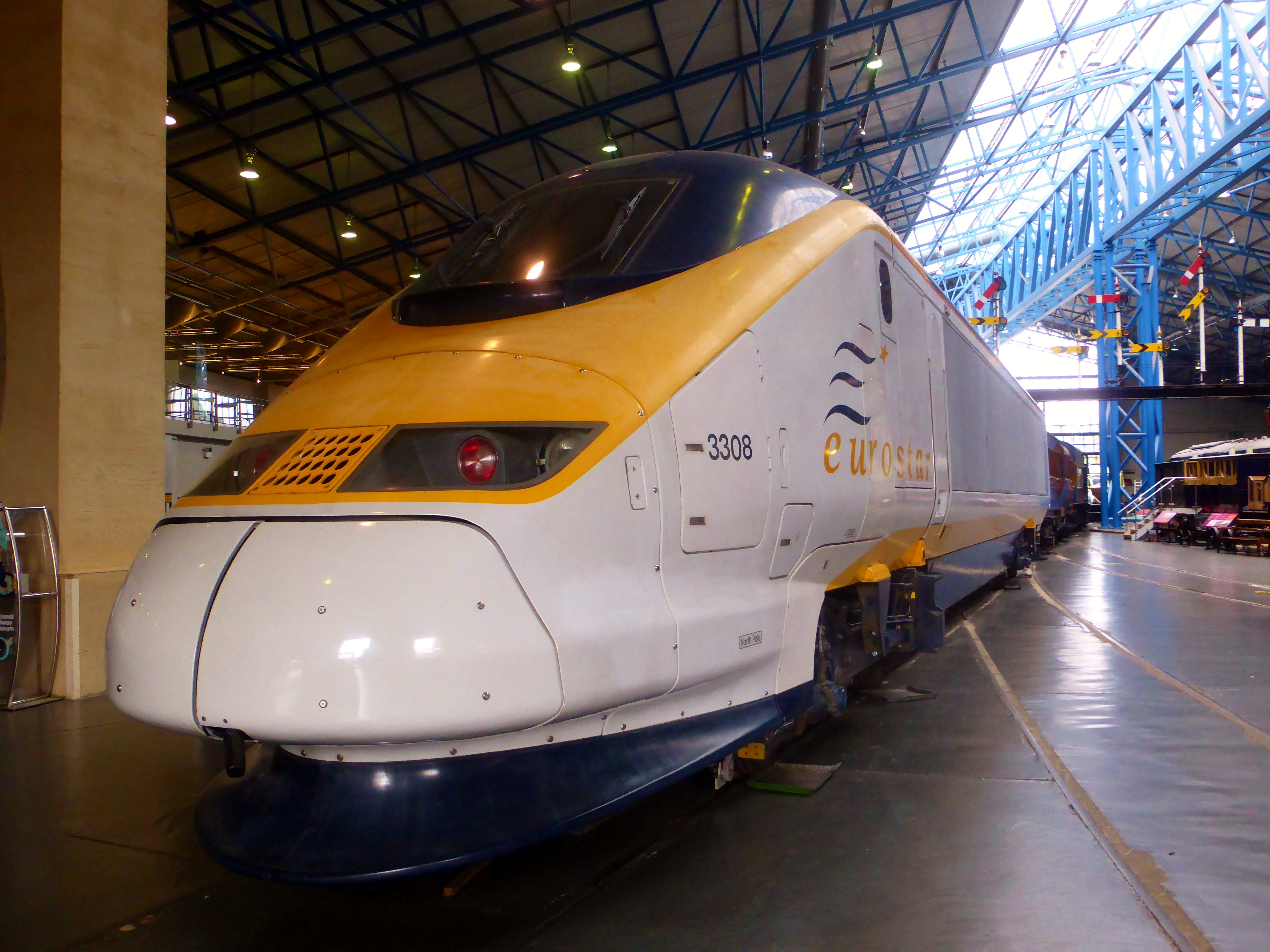 373308 Eurostar at the National Railway Museum York